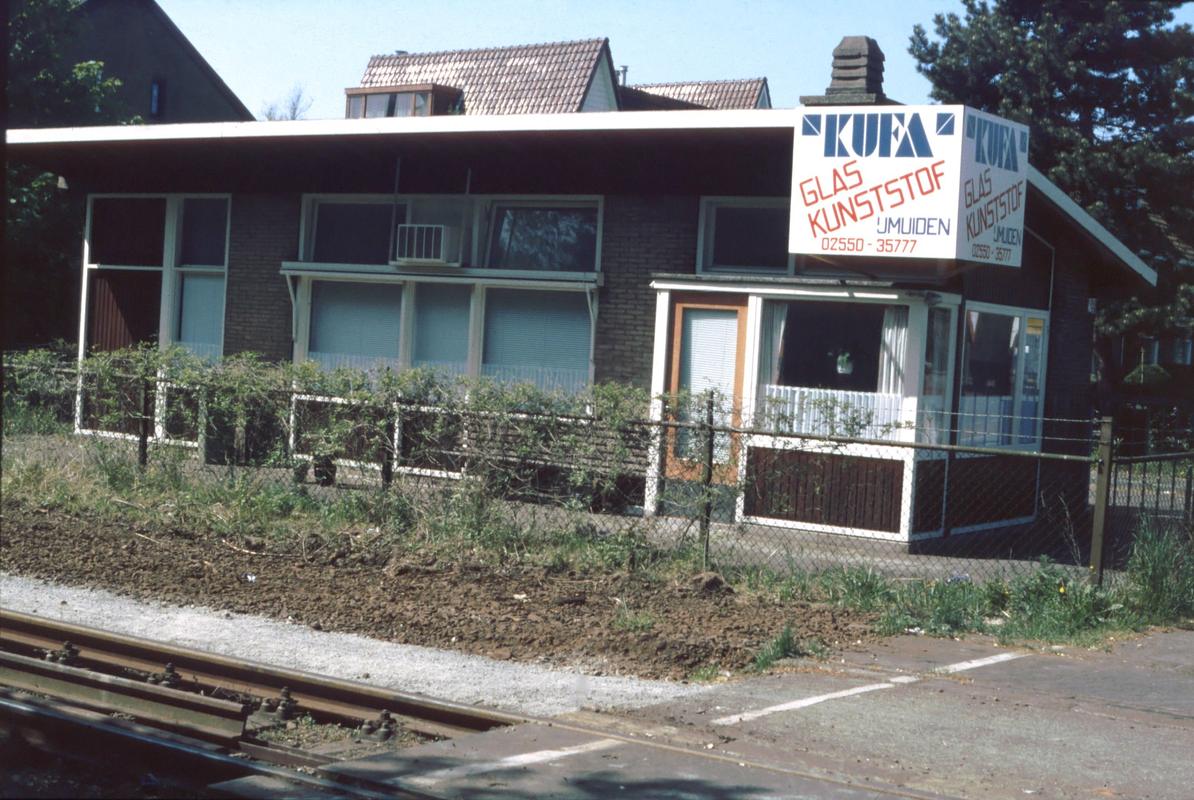 Former Station Velsen Zeeweg, The Netherlands